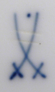 Crossed swords trademark, 1924-34